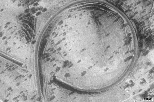 Close up picture of Tehachapi Loop from Terra Server-USA/ USGS